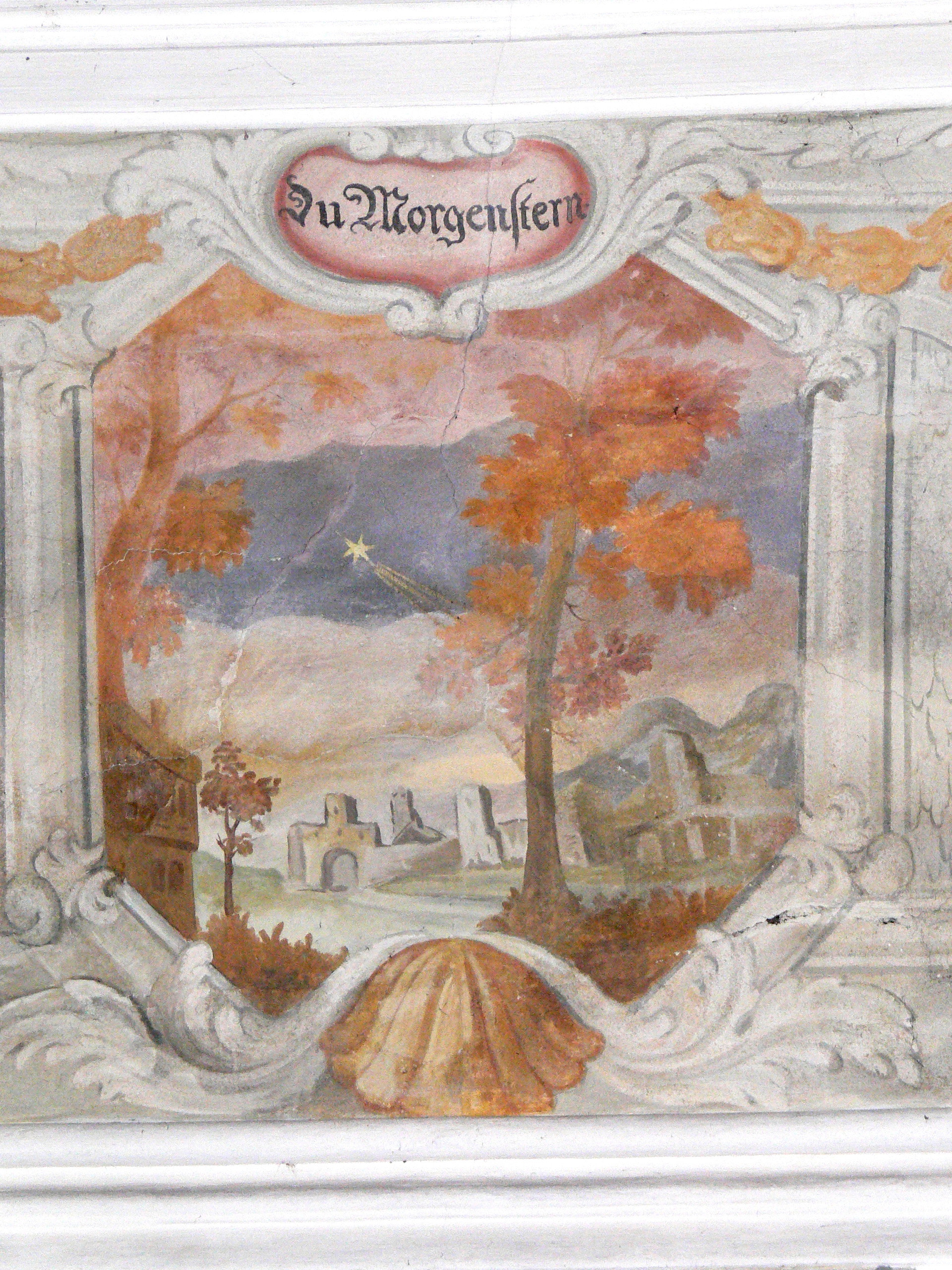 Our Lady´s chapel in Altenmarkt. Fresco illustrating the Lauretan litany "Mary, you morning star".